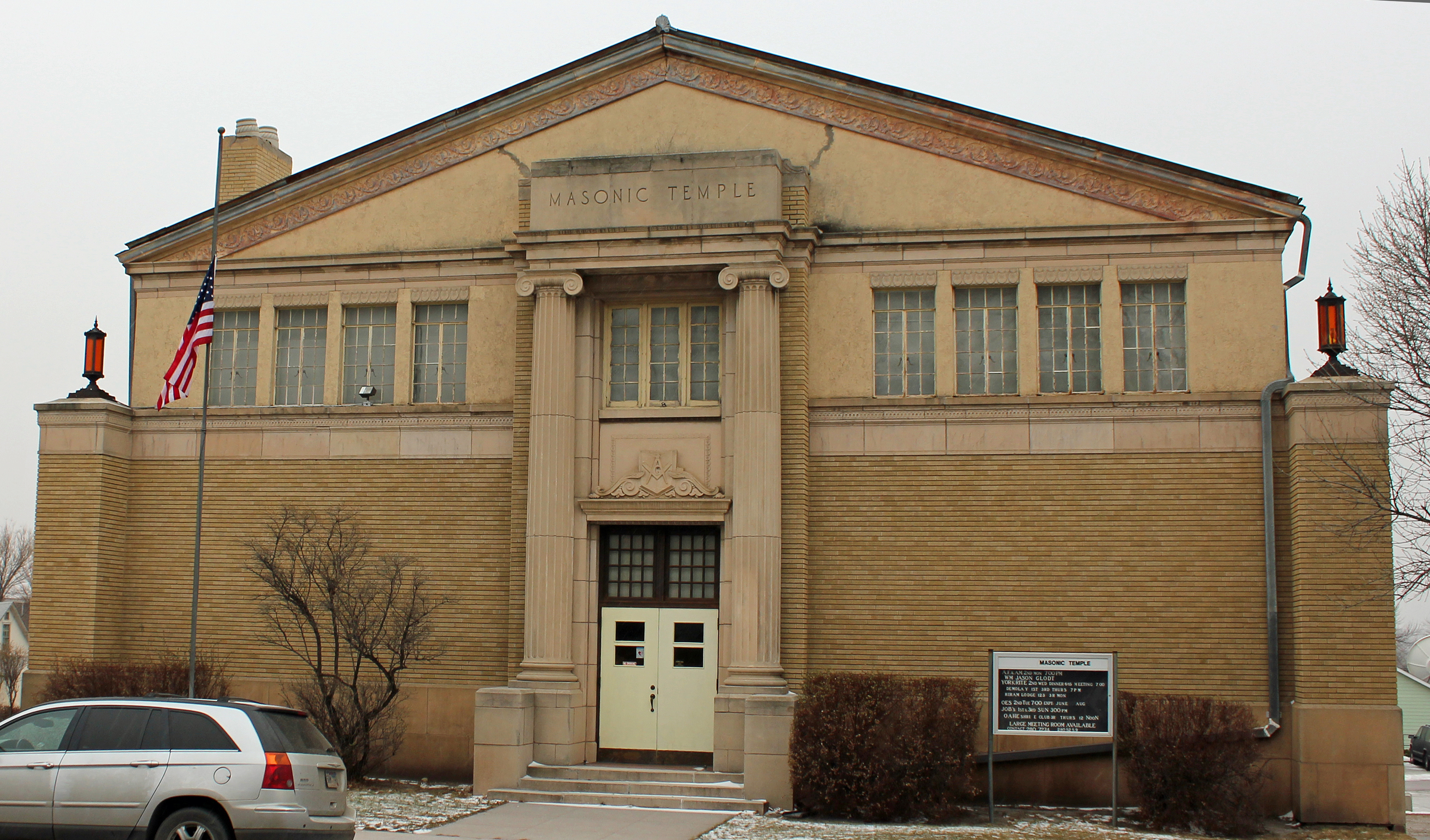 The Pierre Masonic Lodge, located at 210 West Capitol Avenue in Pierre, South Dakota. The building is listed on the National Register of Historic Places.